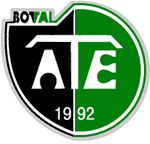 Tresmaiense-rs